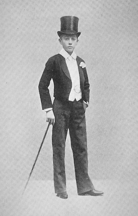 Jacobo Fitz-James Stuart y Falcó, future 17th Duke of Alba posing in Eton College Uniform.